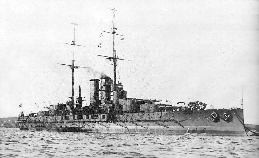 Austro-Hungarian battleship SMS Tegetthoff. Pre-First World War postcard - copyright expired.